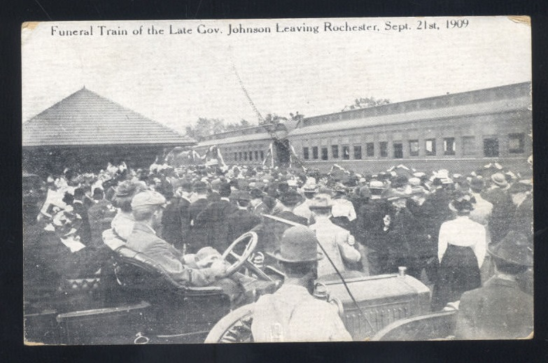 Postcard published by Hack & Wegner Printing Company showing the funeral train of the late Governor John Albert Johnson on September 21, 1909 leaving Rochester, Minnesota, United States. This card was postmarked 1910.